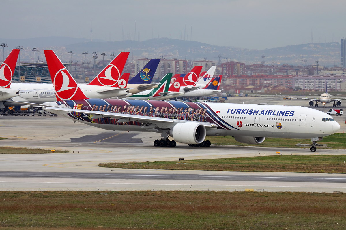 A Turkish Airlines Boeing 777-3F2/ER at Atatürk International Airport (IST / LTBA)